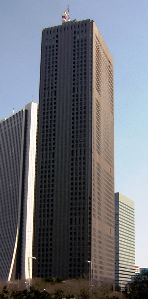 Shinjuku Center Building, the headquarters of Taisei Corporation